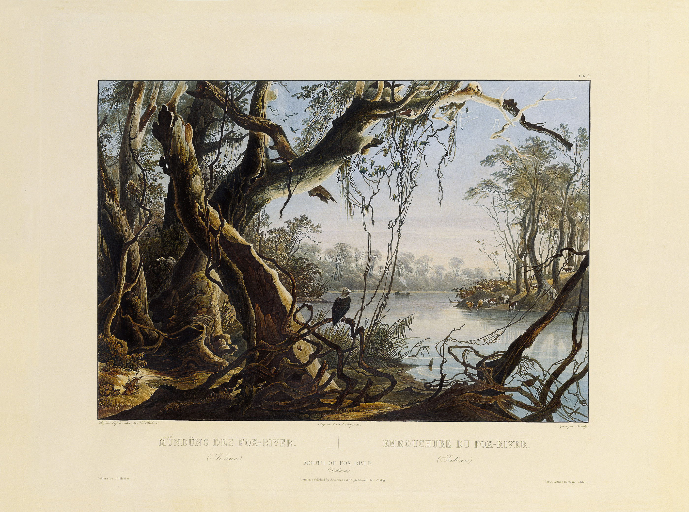 Karl Bodmer: Mouth of Fox River Indiana. Tableau 5. In: Maximilian zu Wied-Neuwied: Maximilian Prince of Wied’s Travels in the Interior of North America, during the years 1832–1834; Translation H. Evans Lloyd; Achermann & Comp., London 1843–1844. This "Fox River" is a tributary of the Wabash River in southern Illinois, entering the Wabash near New Harmony, Indiana.